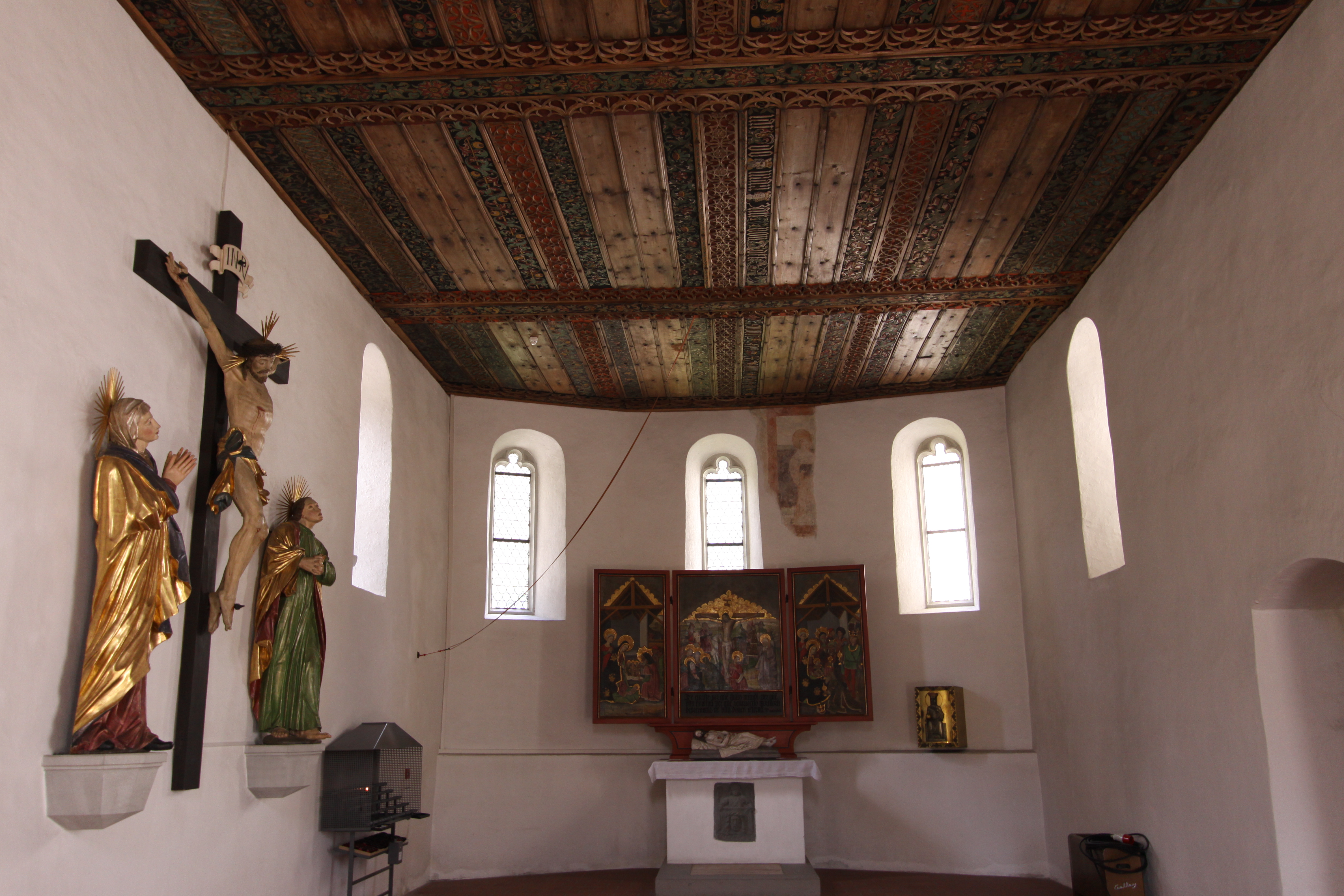 Ossuary and Chapel of St. Michael, Kirchhofen, Sarnen